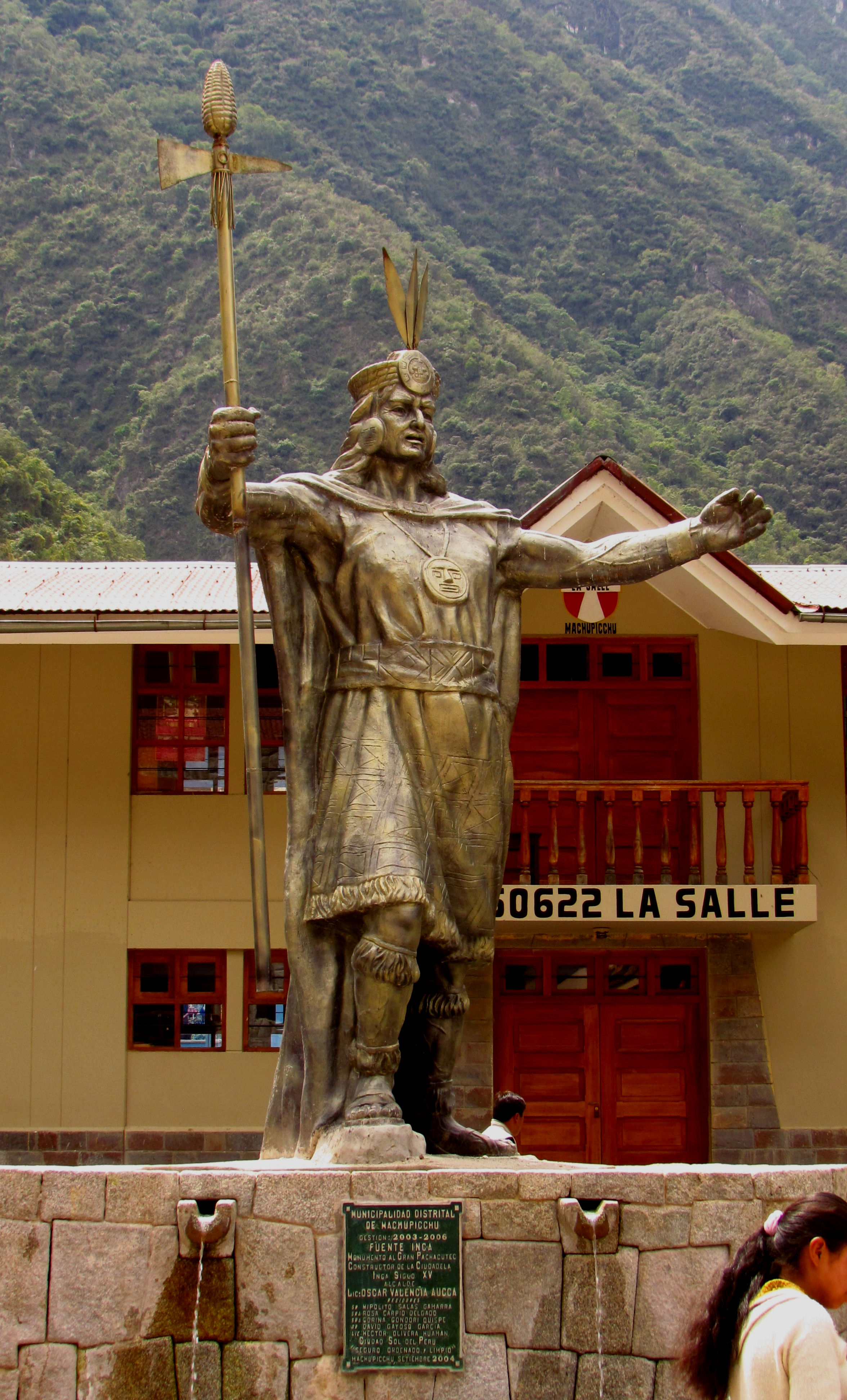 Statue of Pachacutec (Pachacuti), Aguas Calientes, Peru